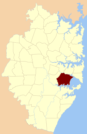 original loction of St George parish within Cumberland County, New South Wales